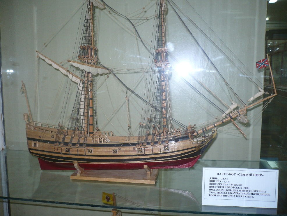 St.Peter, the ship ordered by Peter the Great, built in Okhotks. This ship experienced the Second Kamchatka expedition. this mock-up can be seen in The Russian Black Sea Fleet Museum, Sevastopol.